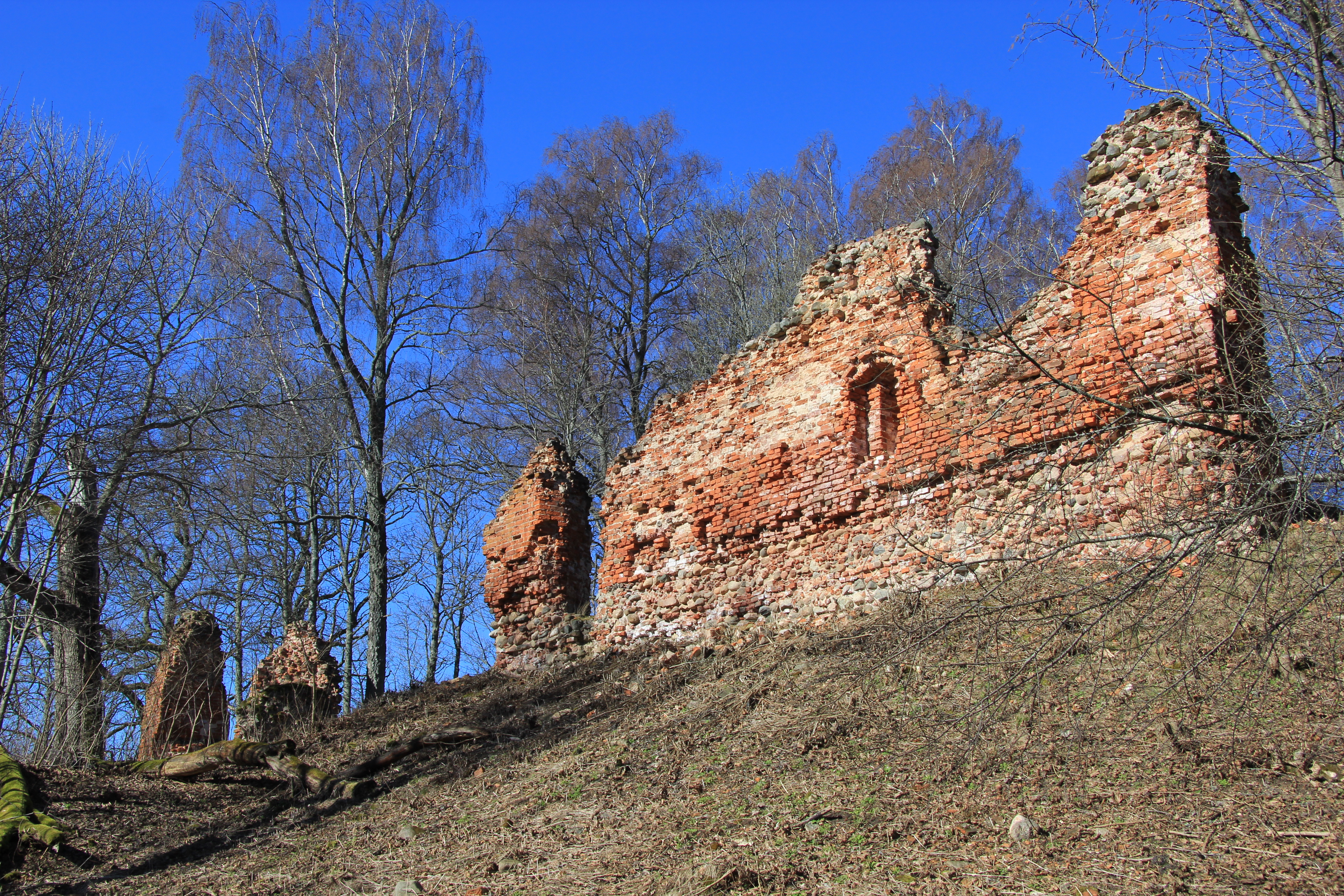 Augstroze Castle ruins